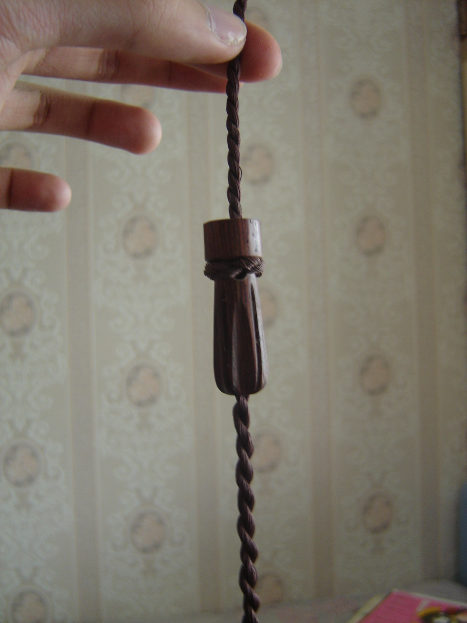 Close-up of a standard wood tuning peg for the guqin, self-photo 2006.